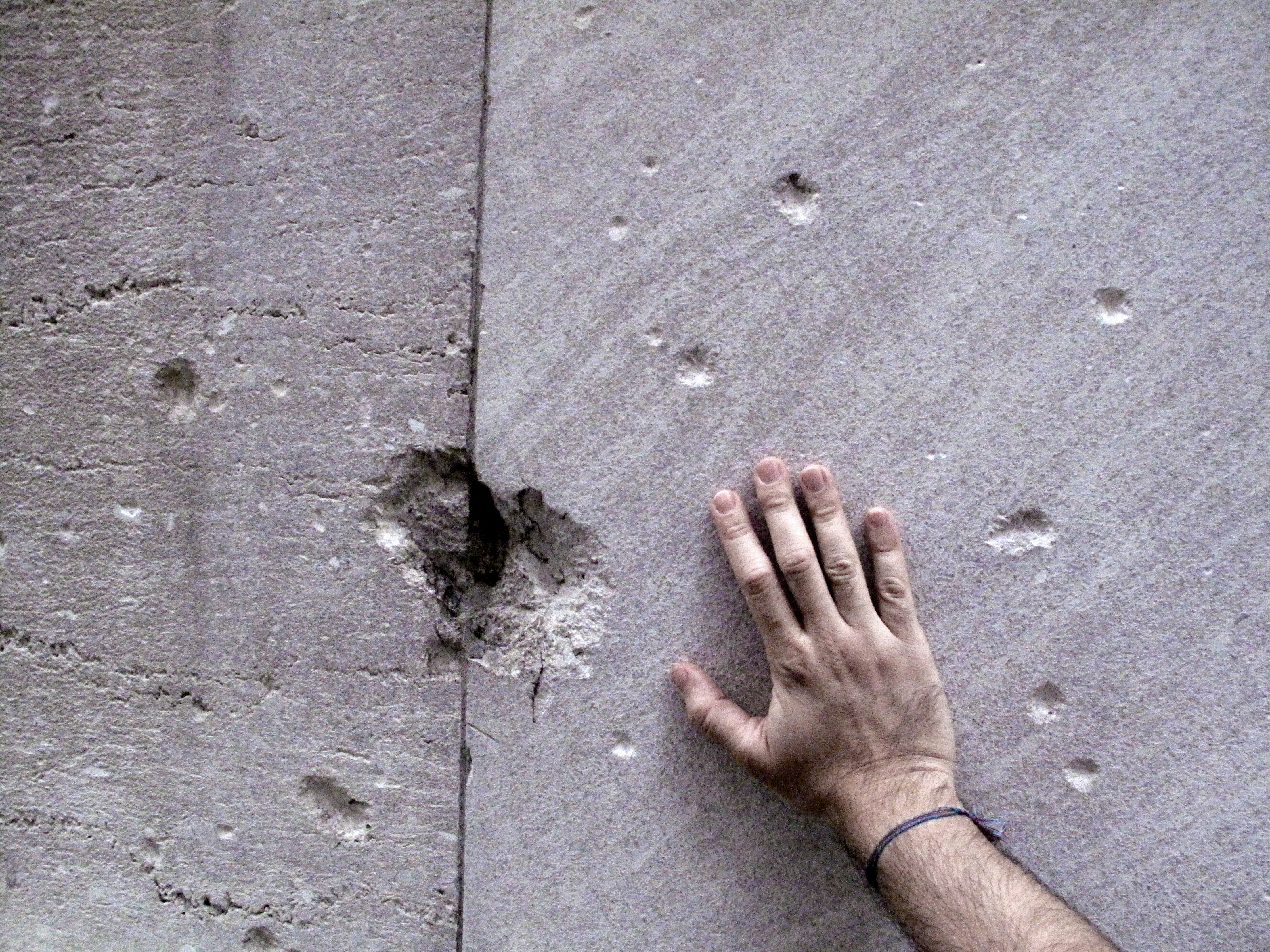 Site of the 1920 Wall Street bombing. Marks still visible today. Hand shows scale of the marks.